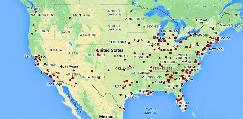 Locations of Mass Shootings in the United States of America